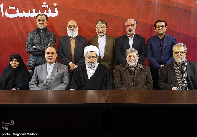 Meeting of Existence Declaration of the Popular Front of Islamic Revolution Forces on 25 Desember 2016